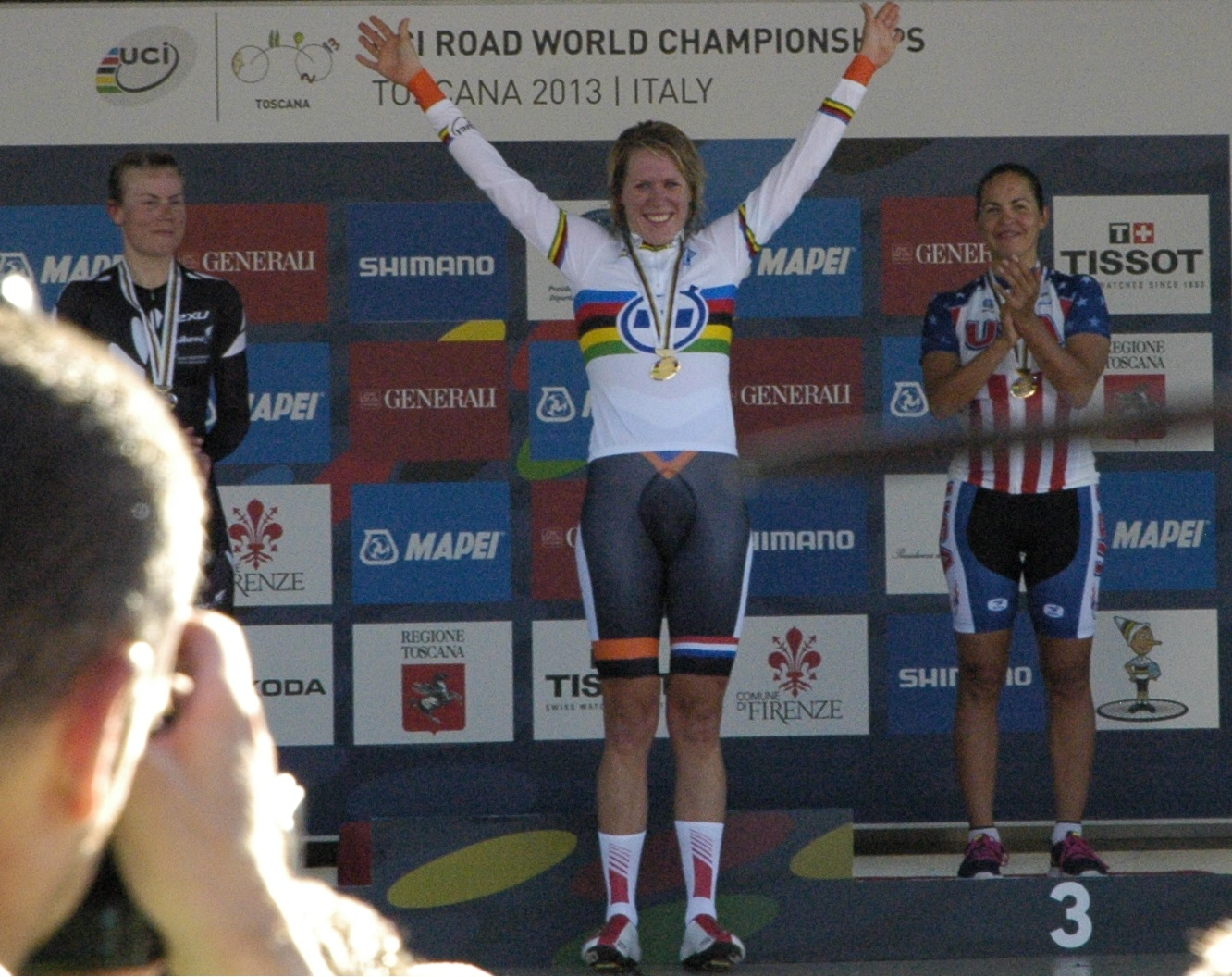 The podium of the women's time trial at the 2013 UCI Road World Championships 1) Ellen van Dijk 2) Linda Villumsen 3) Carmen Small